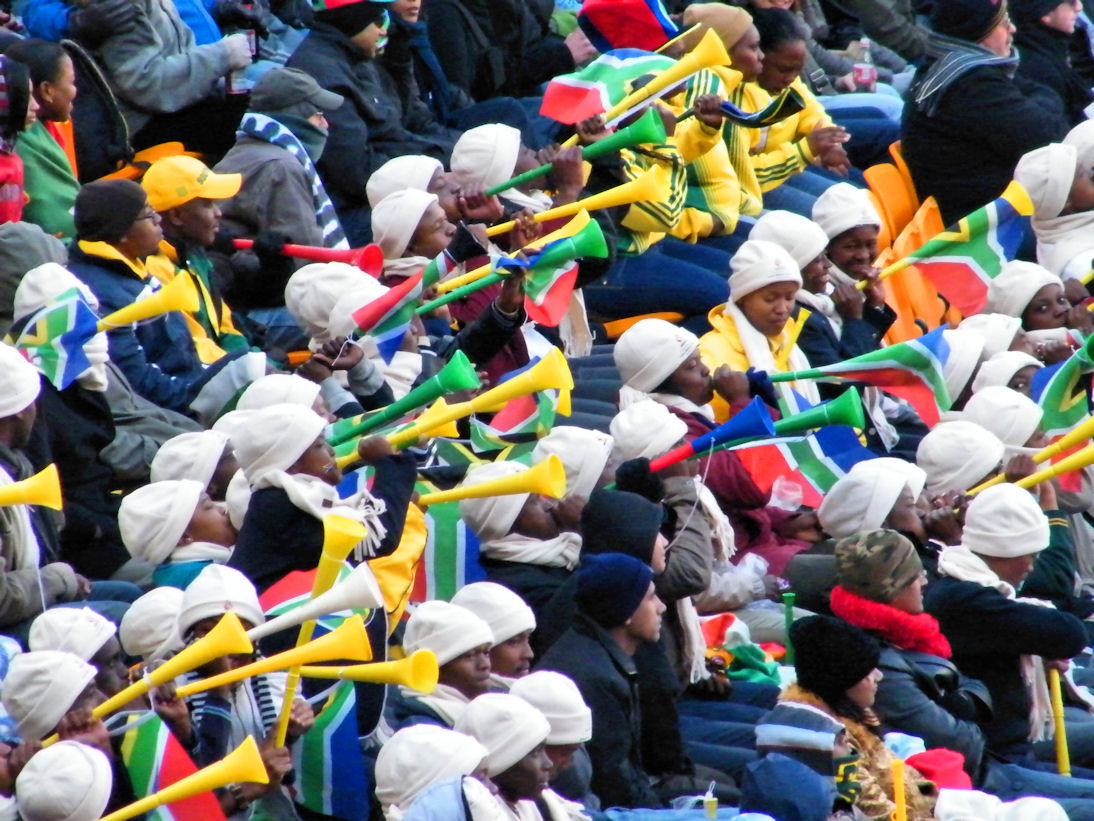 A crowd of women supporters blowing vuvuzelas during a World Cup match 2010